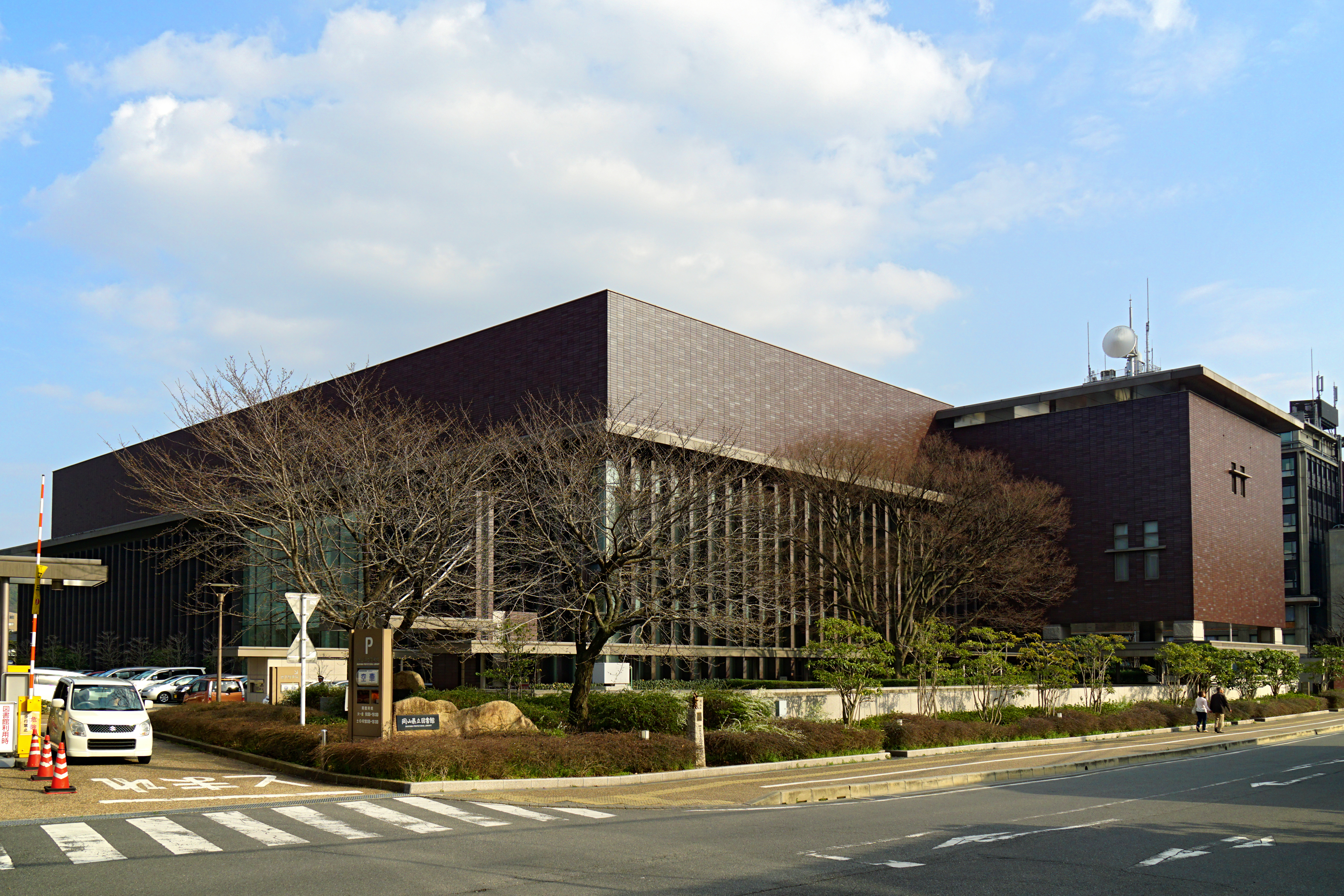 The Okayama Prefectural Library in Okayama, Okayama prefecture, Japan